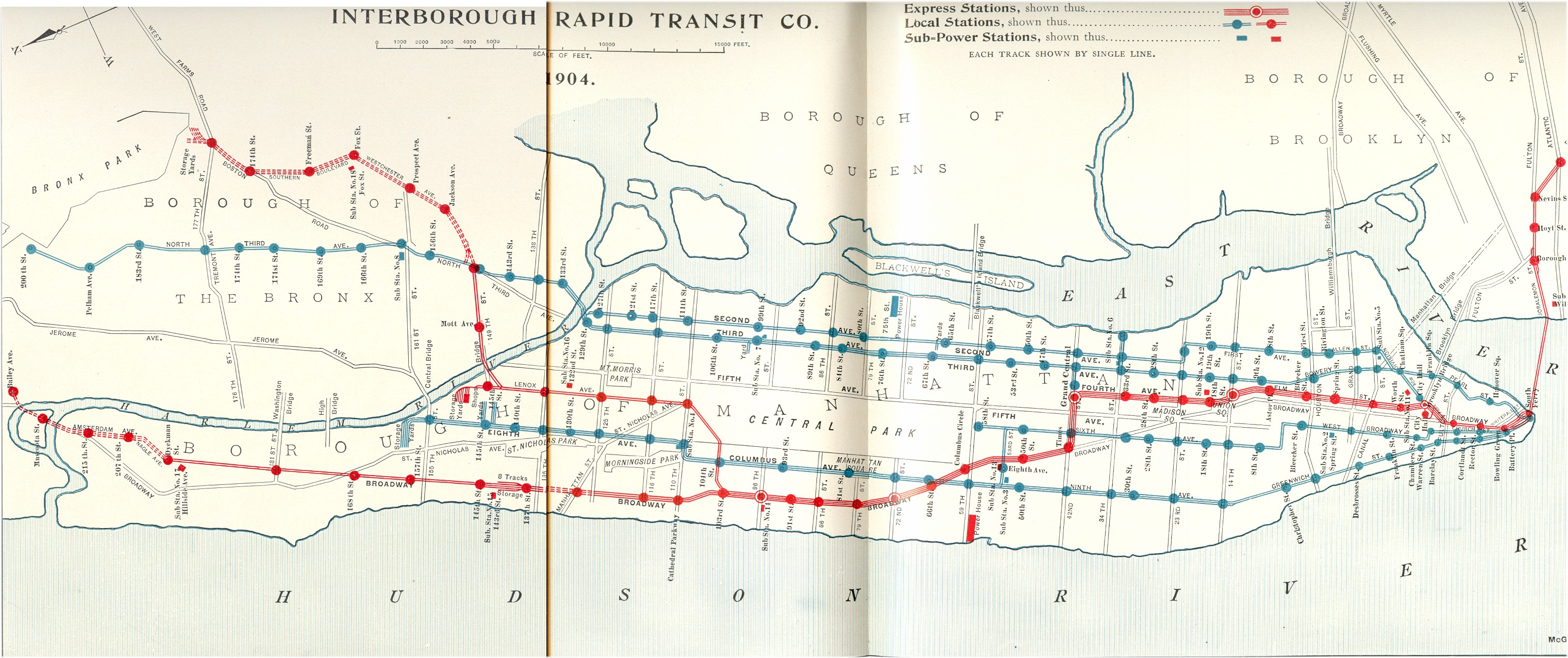 Line map of the Interborough Rapid Tansit Company after the Contracts No. 1 and No. 2 were signed.The elevated lines are shown blue, the new subway lines are shown red.